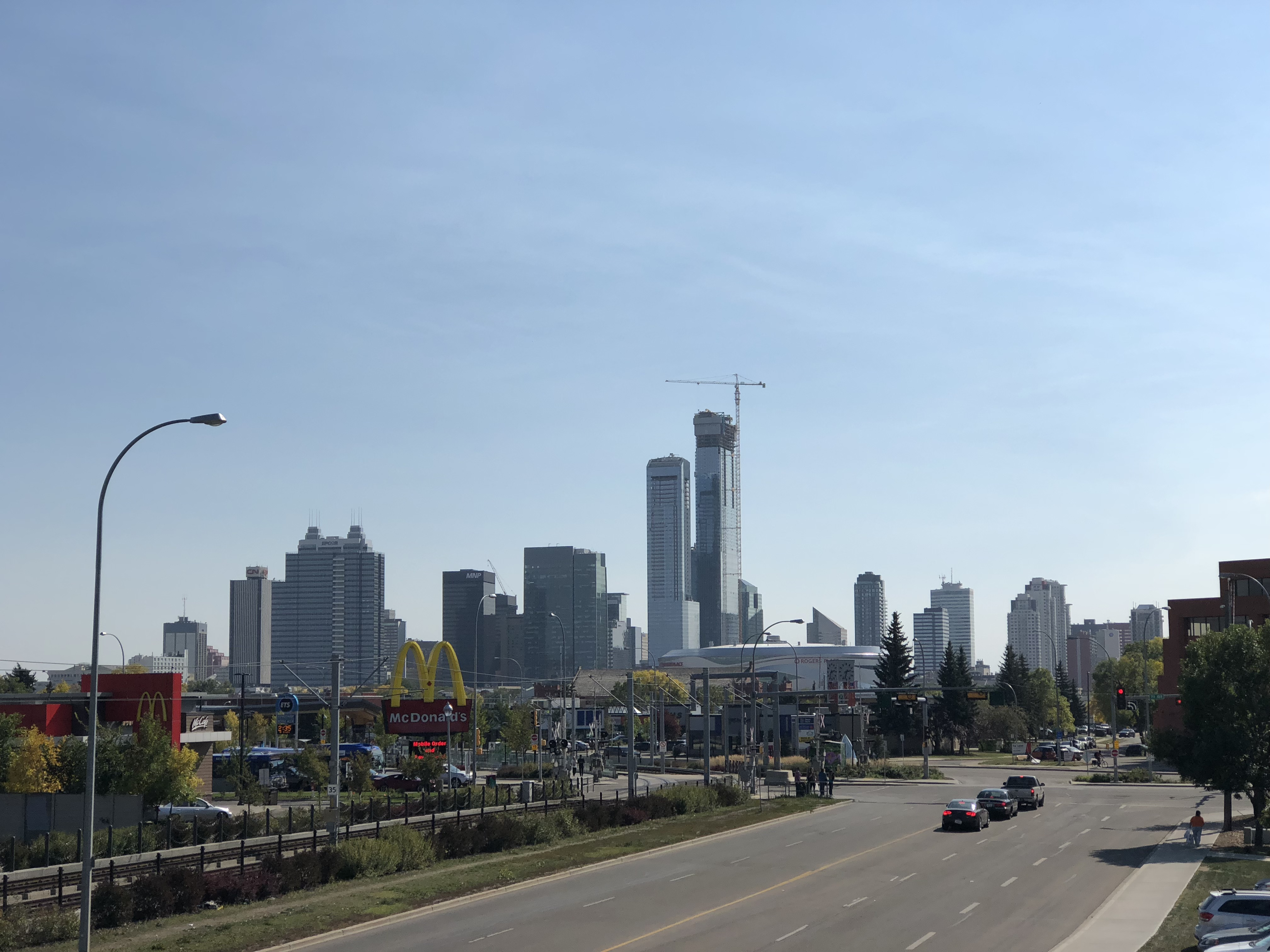 Edmonton skyline viewed from Kingsway mall